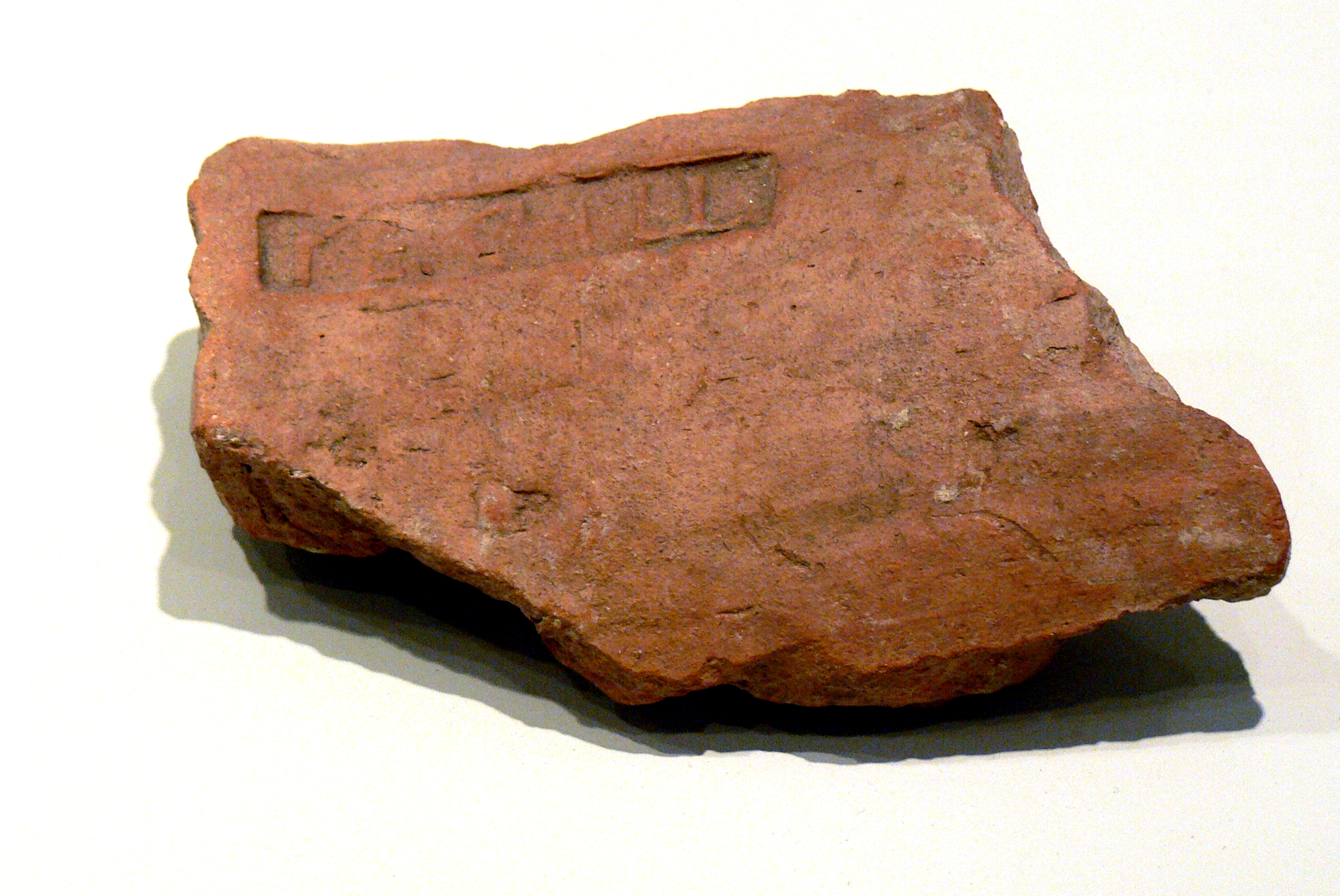 Lorch ( Enns/Upper Austria ). Basilica of Saint Lawrence: Excavations of an ancient Roman house ( 2nd century ) - Brick stamp of Legio II Italica.